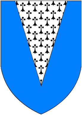 Arms of Wyche of Surrey, per Guillim, Display of Heraldry, 1726: Azure, a pile ermine